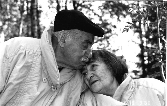 Couple of Semyon Lipkin and Inna Lisnyanskaya kissing at Peredelkino